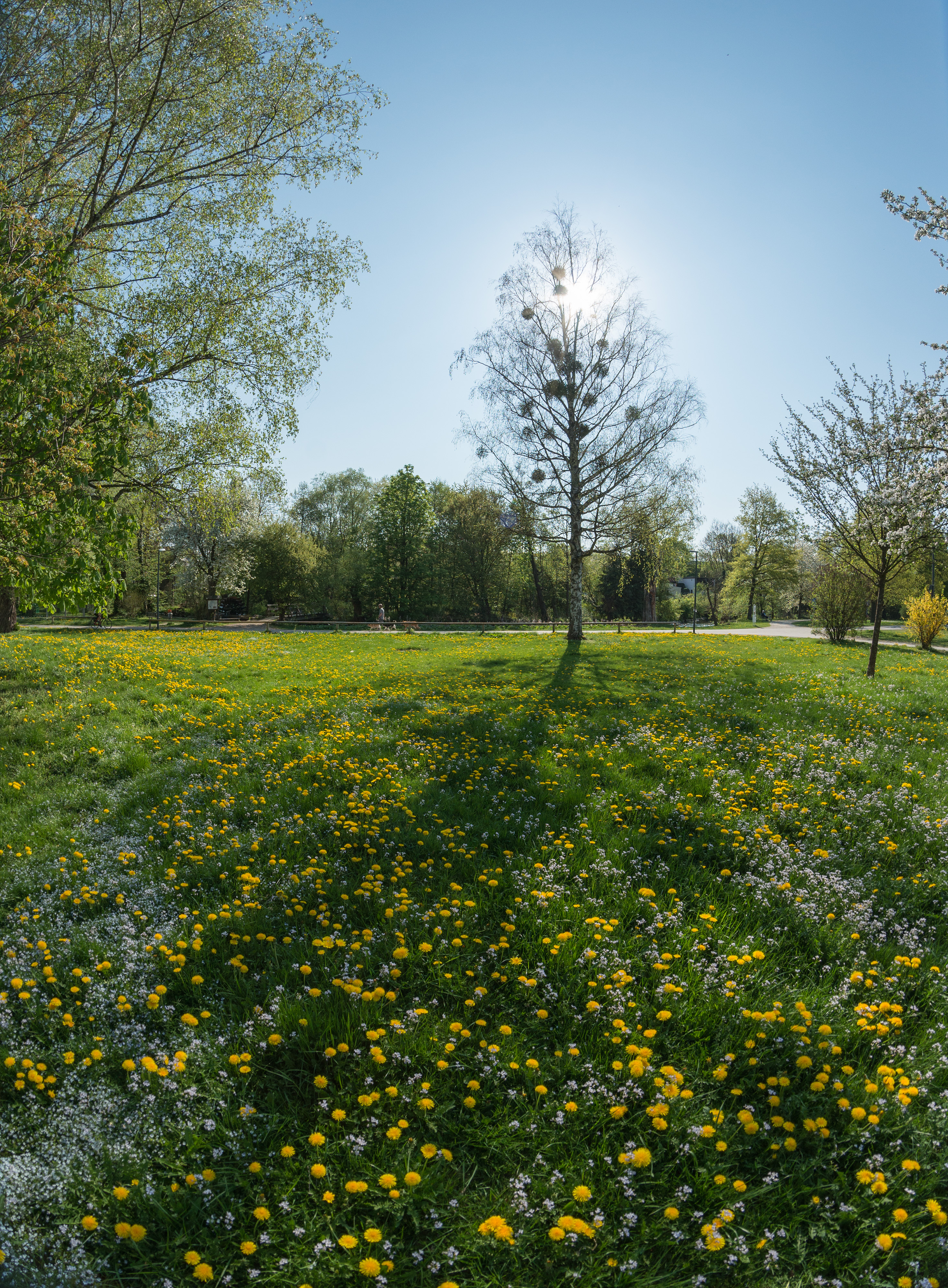 Die Wiese beim Wasserrad in Gräfelfing im morgendlichen Gegenlicht